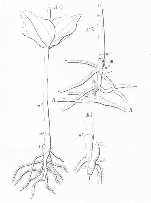 Listera cordata; A part of flowering plant, n1-n3 three bracts, I main axis, II main bud; B similar plant with bracts removed; C third plant that has appeared a as root sprout, R-R root, I-III successive axes.